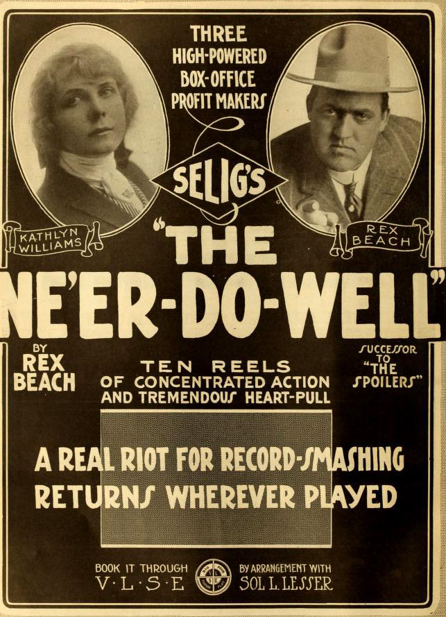 Advertisement in Moving Picture World for the film The Ne'er Do Well (1916).